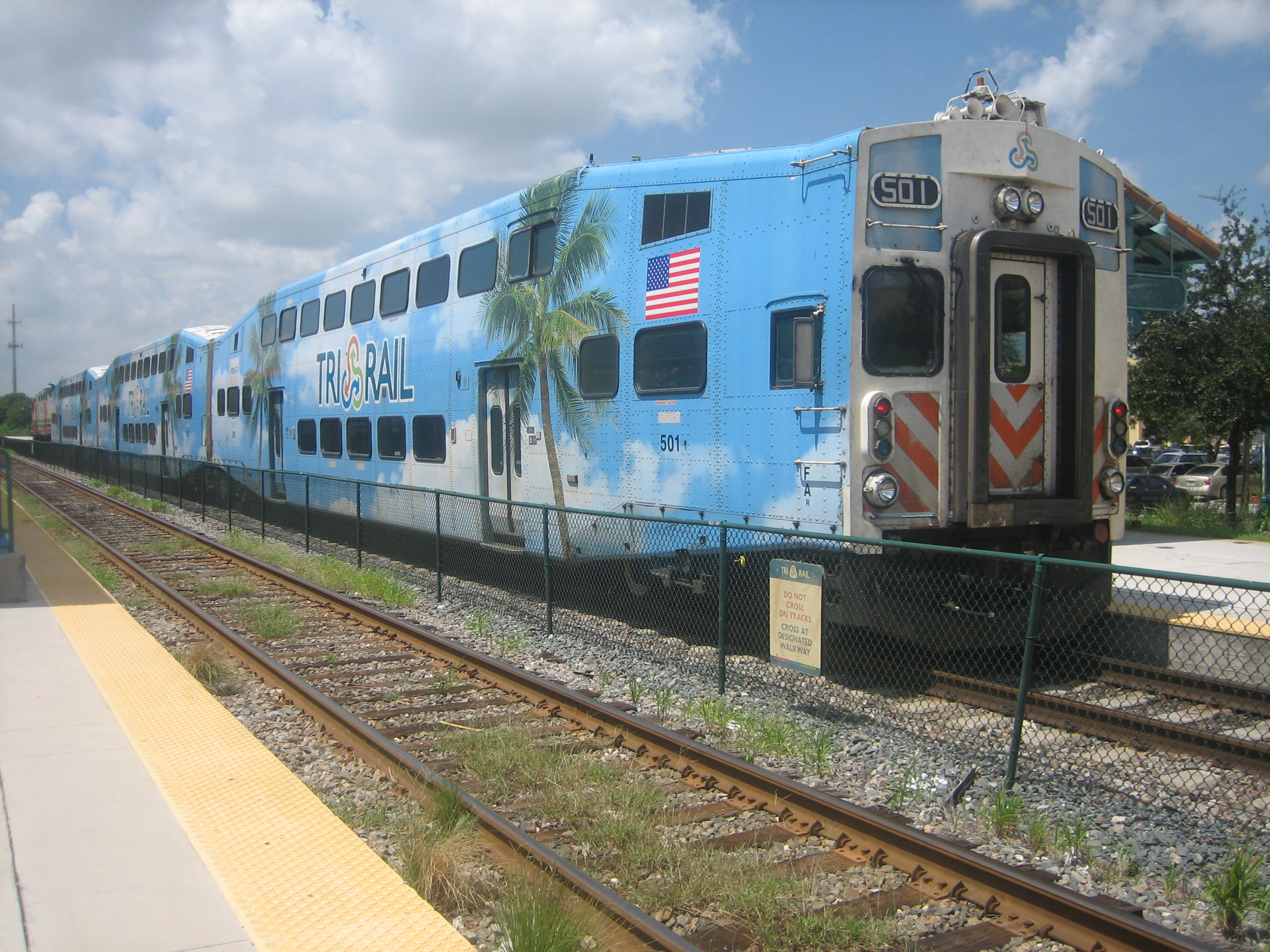 Bombardier BiLevel Coach in Tri-rail livery at the Deerfield Beach Tri-Rail station.